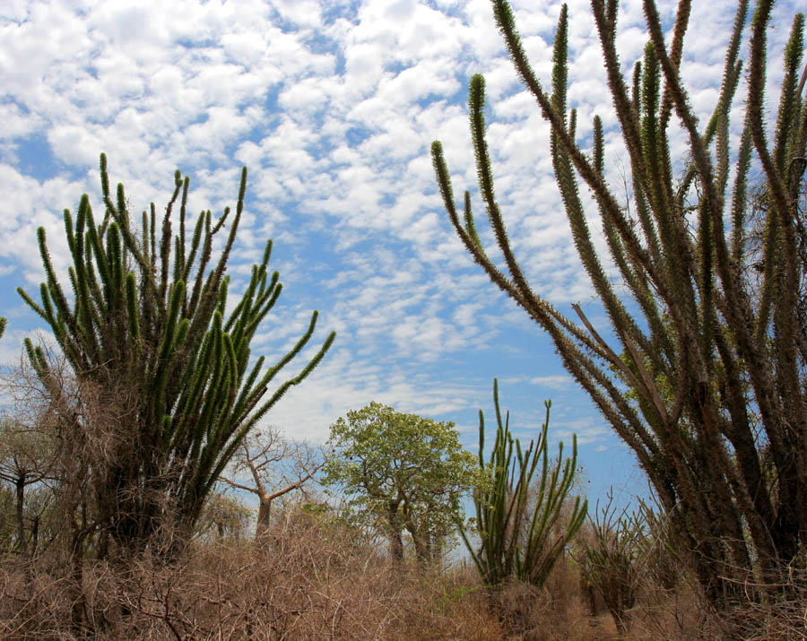 Alluaudia procera (Madagascar octotillo) at the spiny forest, Ifaty, Madagascar